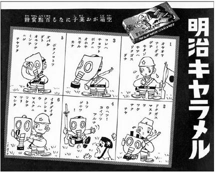 Meiji caramels advertisement depicting a Japanese soldier wearing a gas mask and a Chinese soldier who had never seen a gas mask before